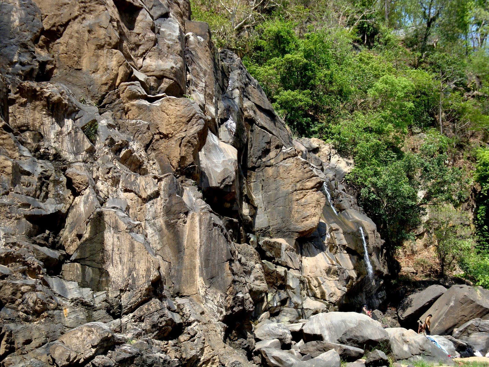 One of Tourism place in Ranchi